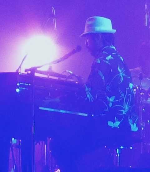 J-pop artist Shintarō Tokita of "Sukima Switch" (at "Countdown Japan" music festival.)